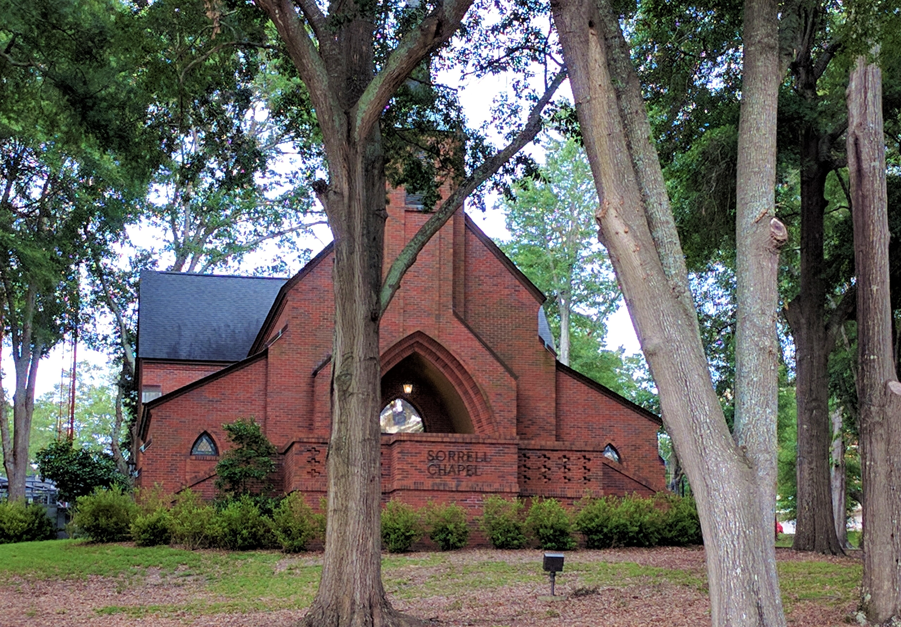 Front view of Sorrell Chapel.